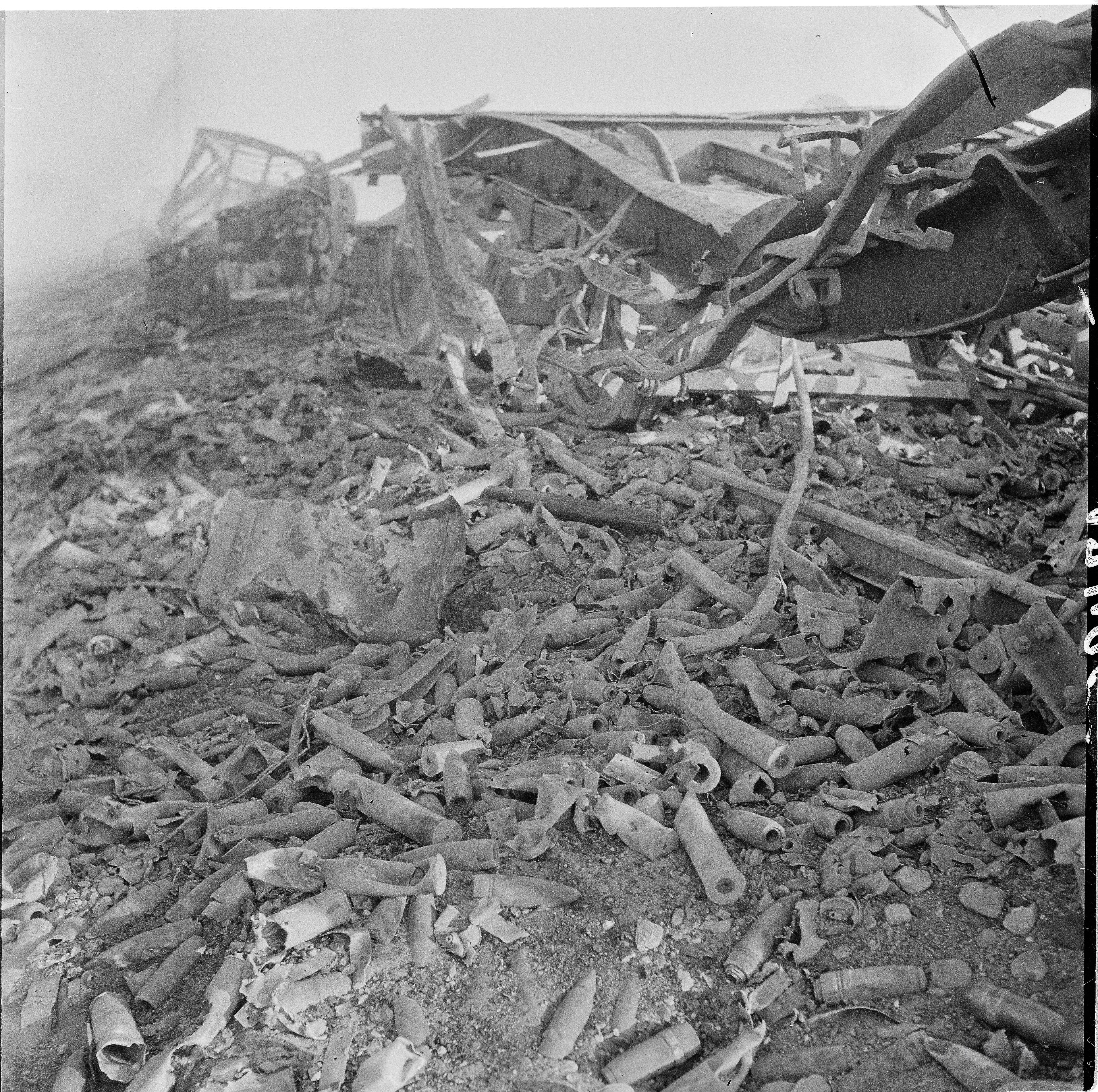 Pikatykin hylsyjen ja ammusten peittm ratavalli.